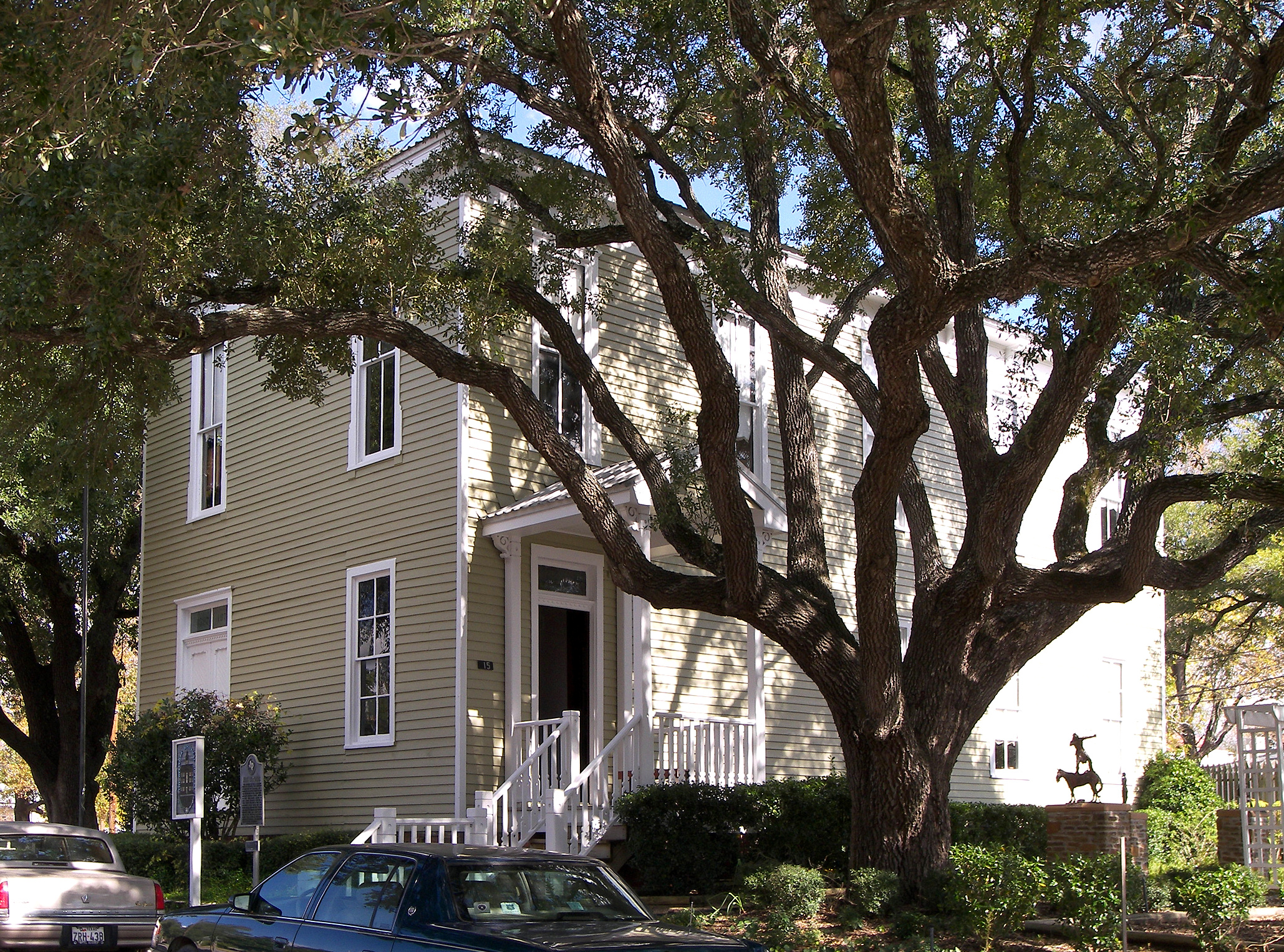 The Old Masonic Hall located in Bellville, Texas, United States. The building was listed on the National Register of Historic Places on August 14, 1986.